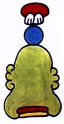 Escudo de Jojutla, Morelos.